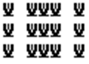 Glyph of Rovas 500 (small), created on 10.05.1997.Screenshot of rovas text processor, developed by Béla Nagy, secondary school teacher, 1996. This text processor has been used at computer lessons.